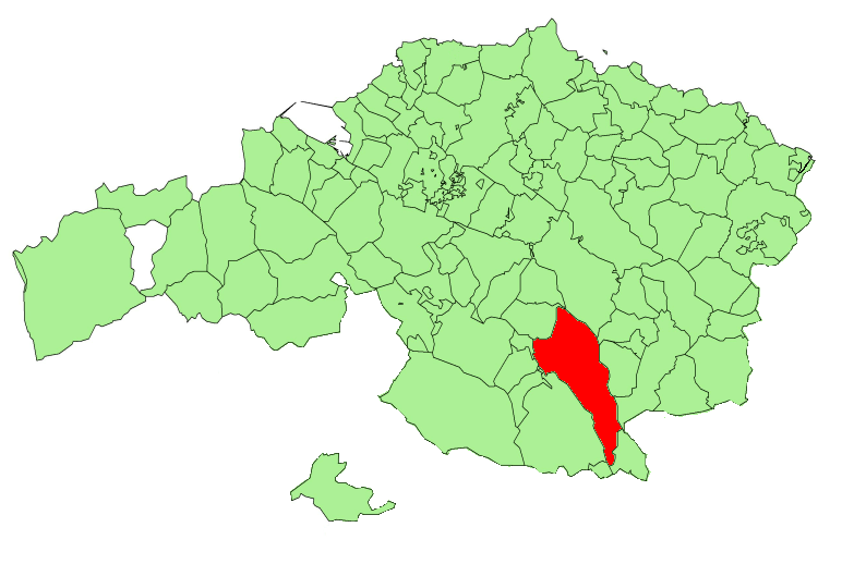 Dima municipality in the province of Biscay